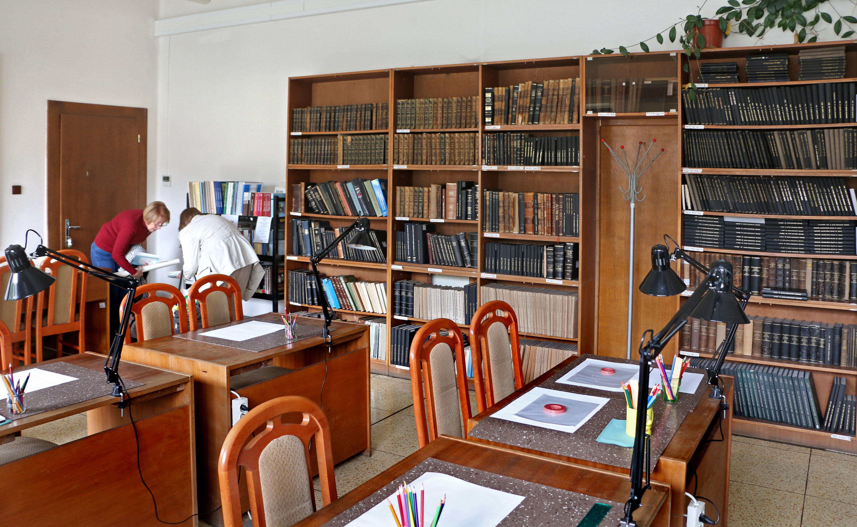 The National archives, research room of the 1st department, Prague.